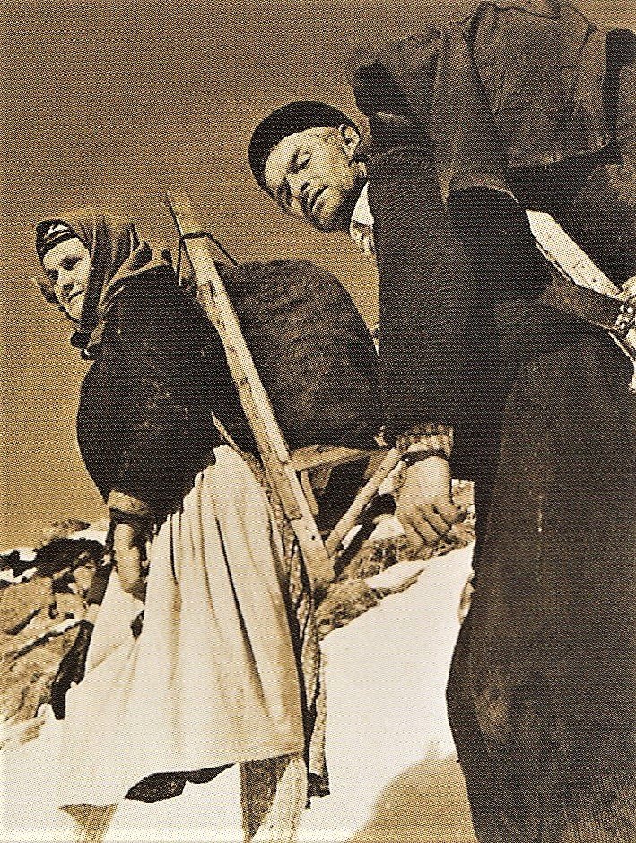 The King of Tatra Carriers Ondrej Hudacek and his wife Mary